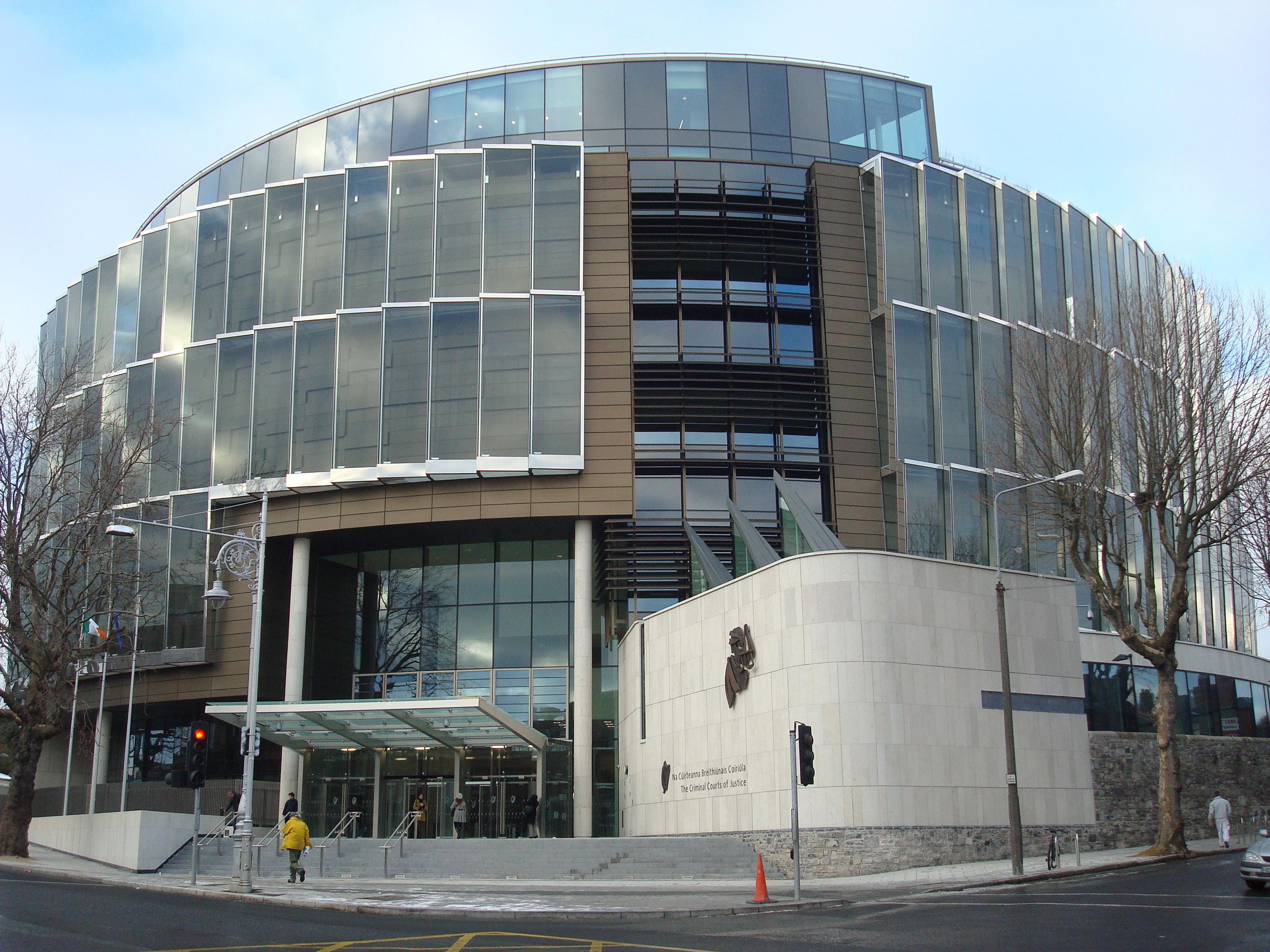 Criminal Court of Justice Dublin, Ireland. The court is commencing full operations in Jan 2010.